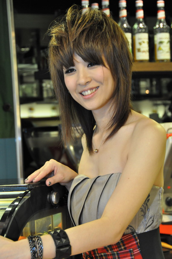 Queen Wei at O'sweet Da'an Store.